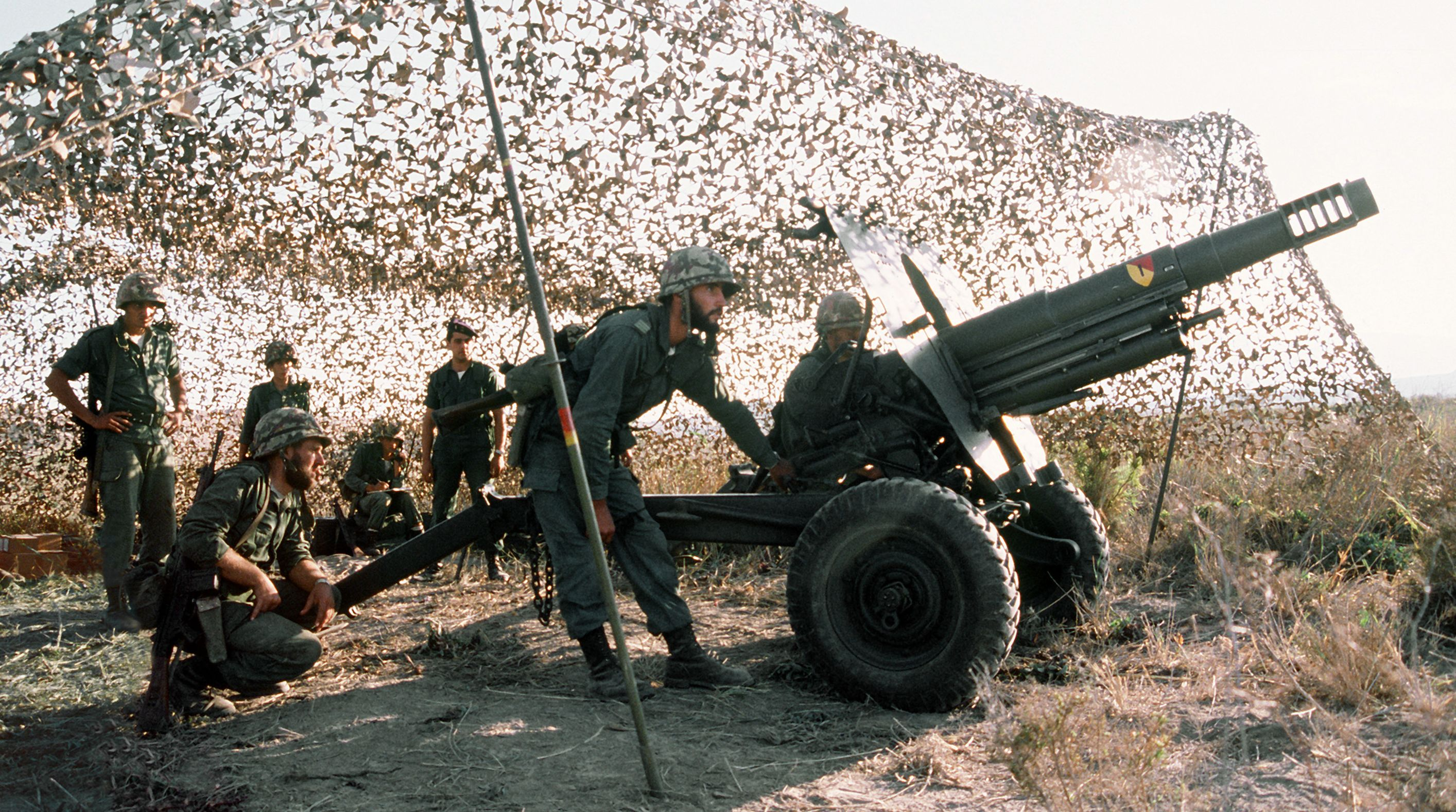 Spanish Marines man a 105mm howitzer during Exercise Crisex '81. Remark: Oto Melara 105/14 pack howitzer.